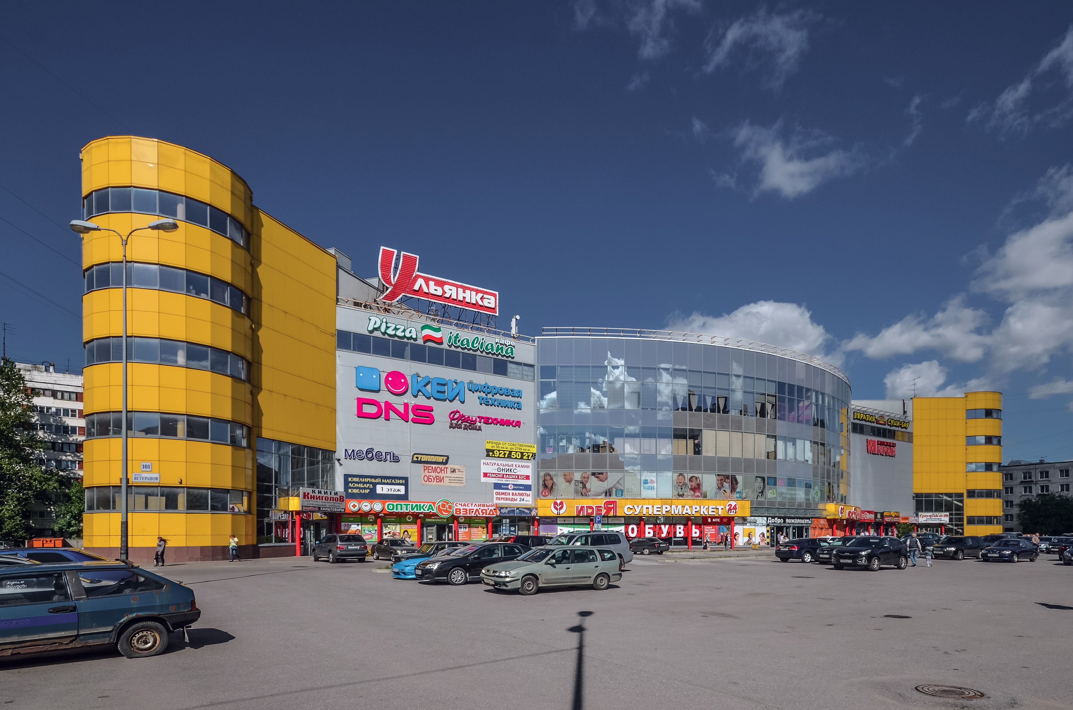 Ulyanka Mall at Veteranov Avenue in Saint Petersburg